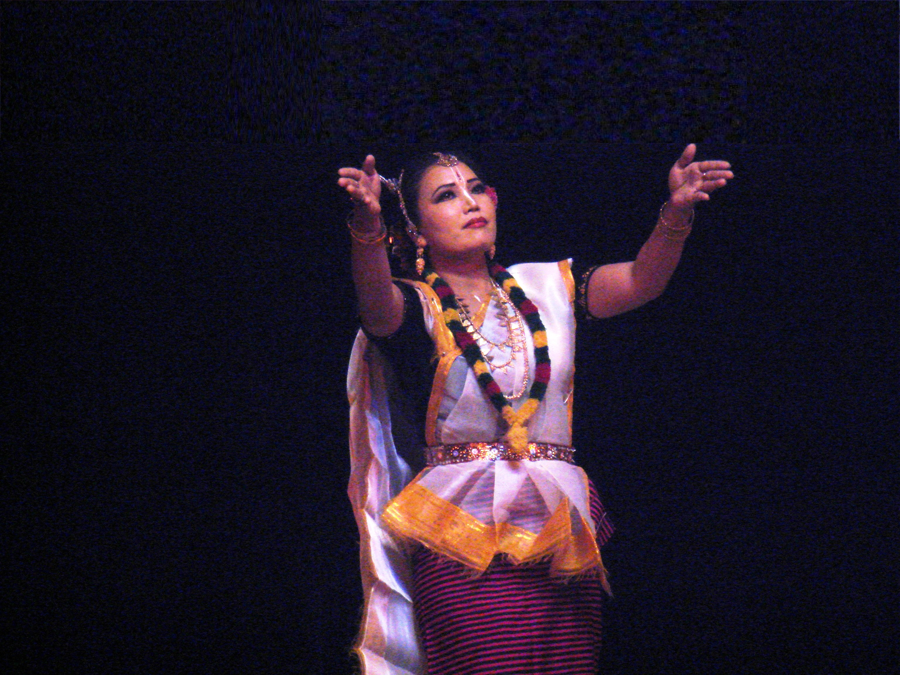 Manipuri performer in an evocative pose. (Trimmed to remove, an extraneous element on top)